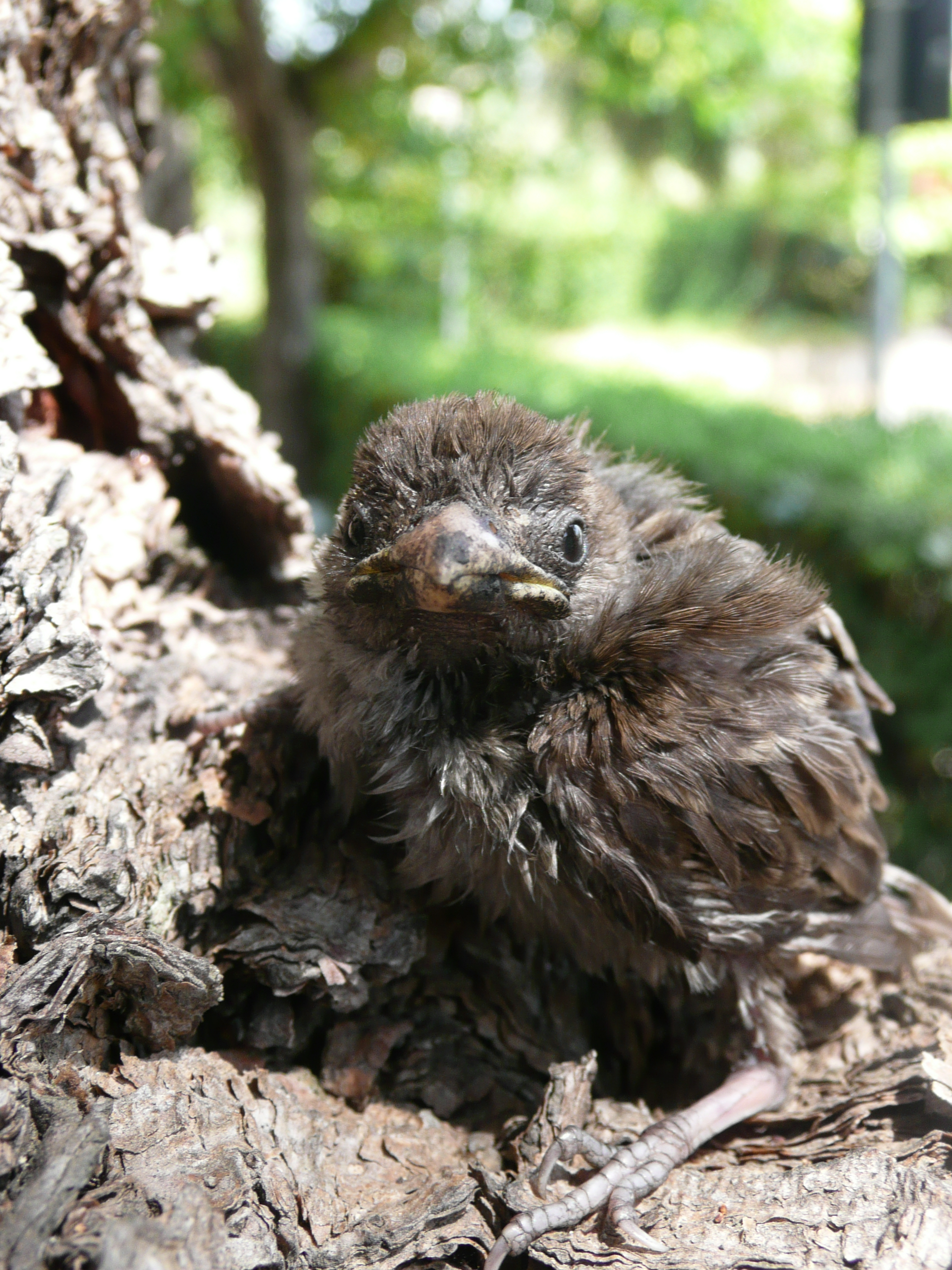 Passer sparrow fledgeling probably in Italy, either Italian or Eurasian Tree Sparrow